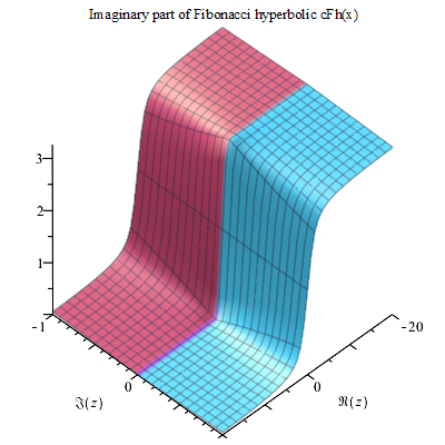 Fibonacci hyperbolic arccosine imaginary part 3D plot